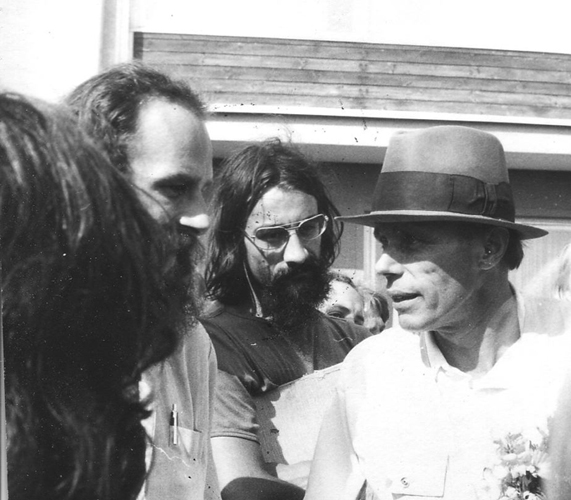 Joseph Beuys photographed by Rainer Rappmann